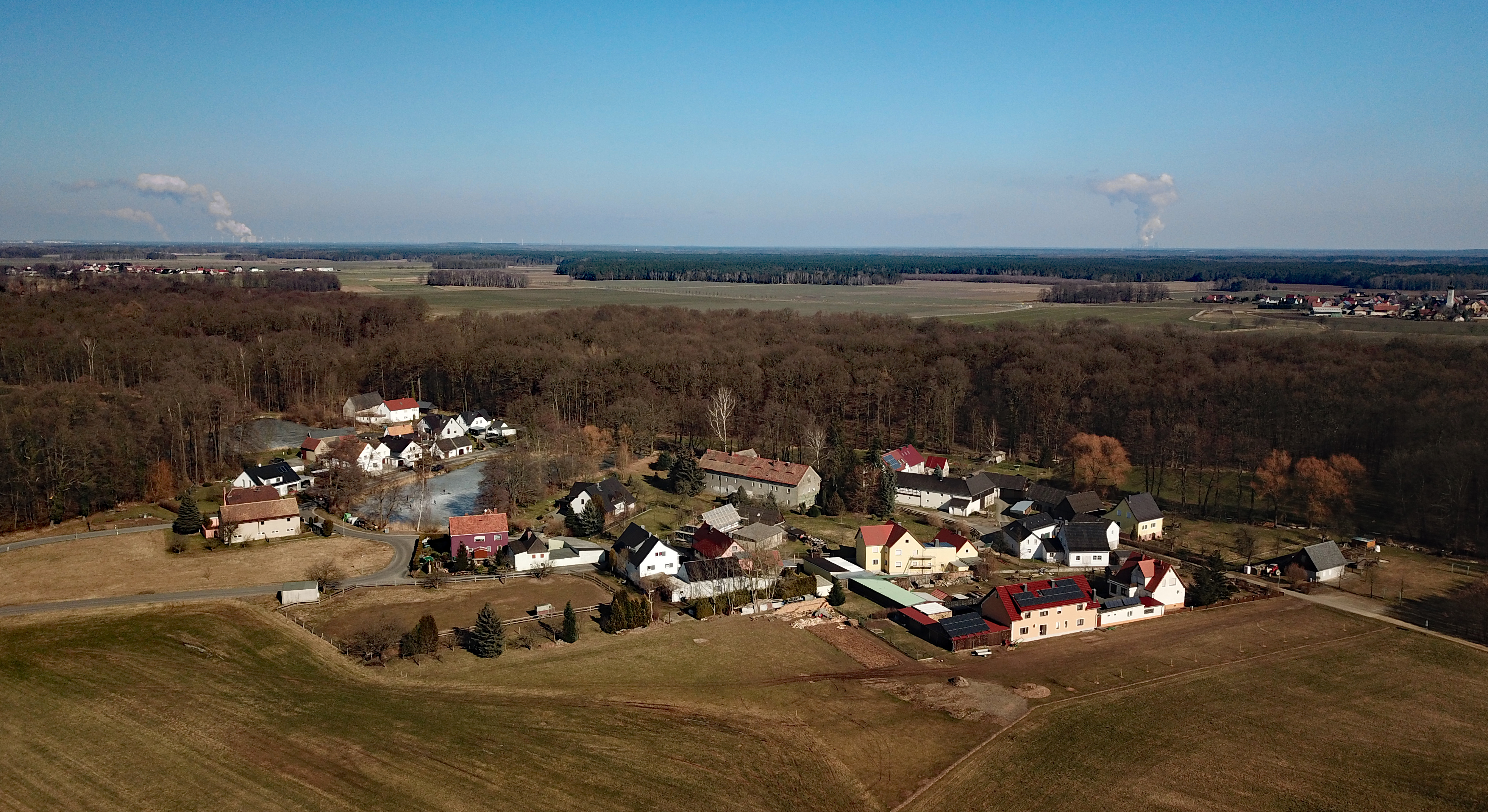 Laske (Ralbitz-Rosenthal, Saxony, Germany) Hornjoserbsce: Powětrowy wobraz Łazka.